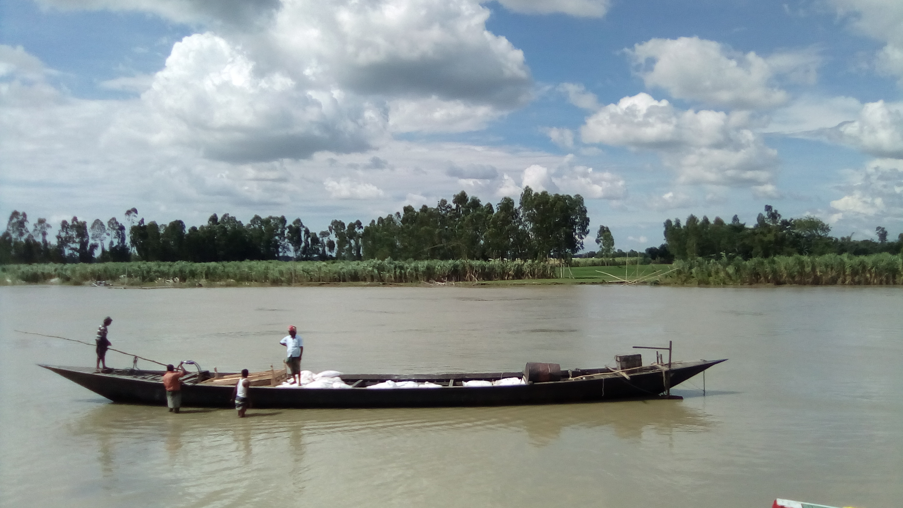 দেওয়ানগঞ্জের প্রাকৃতিক সৌন্দর্য্য